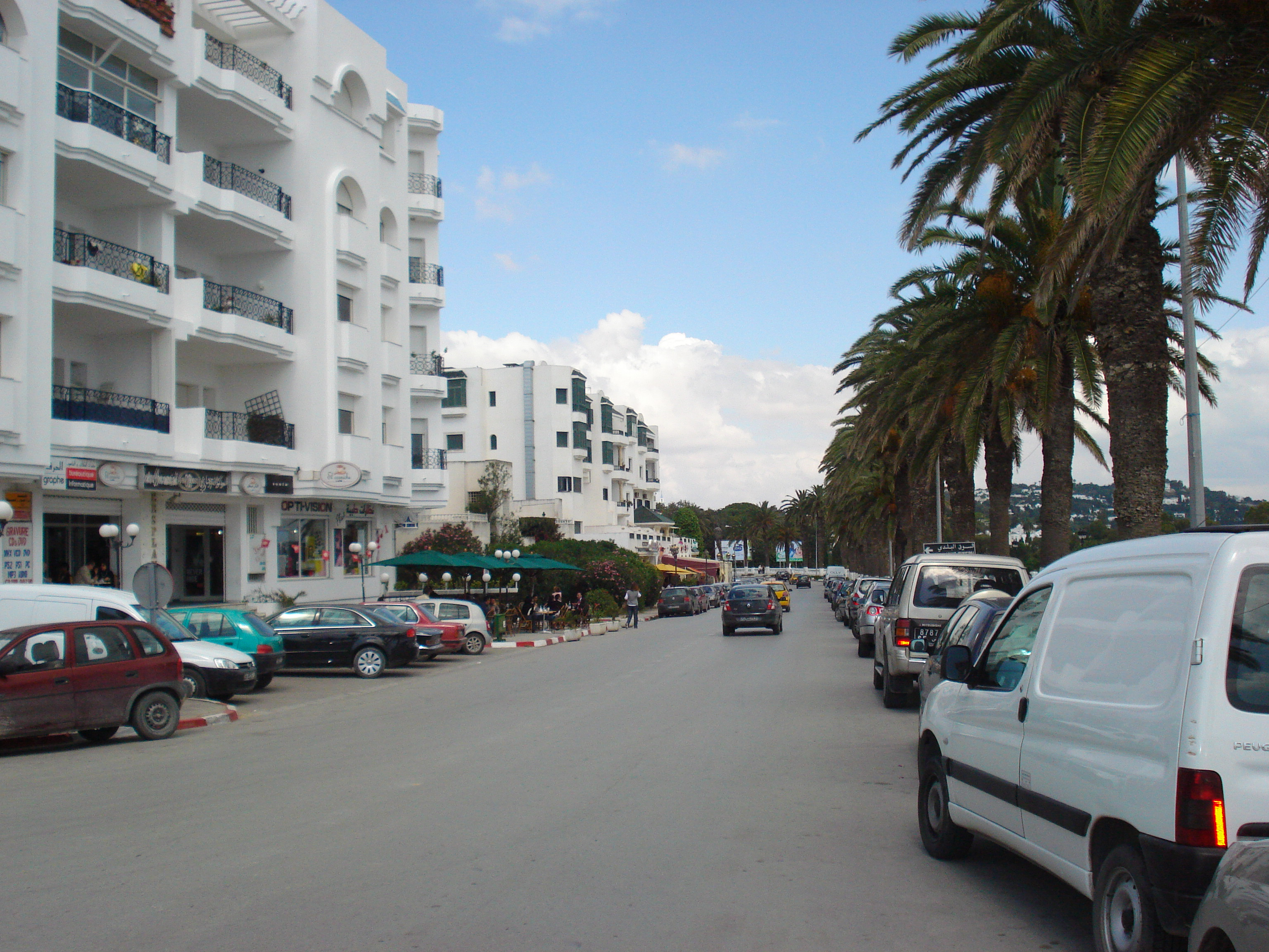 ِStreet of Corniche of La Marsa Plage, Tunisia